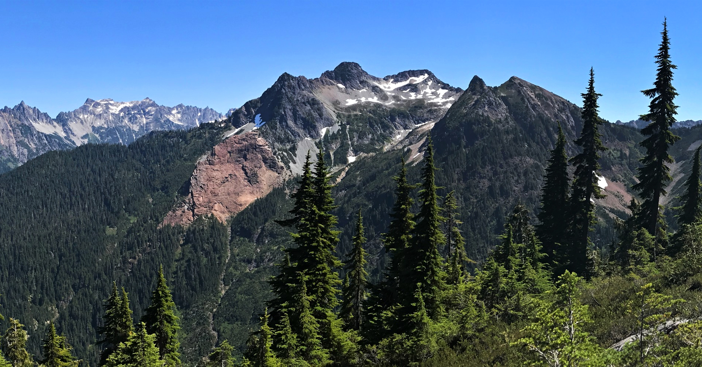 Silver Tip Peak landscape